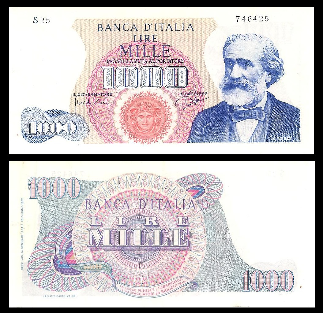 1000 Lire Verdi First